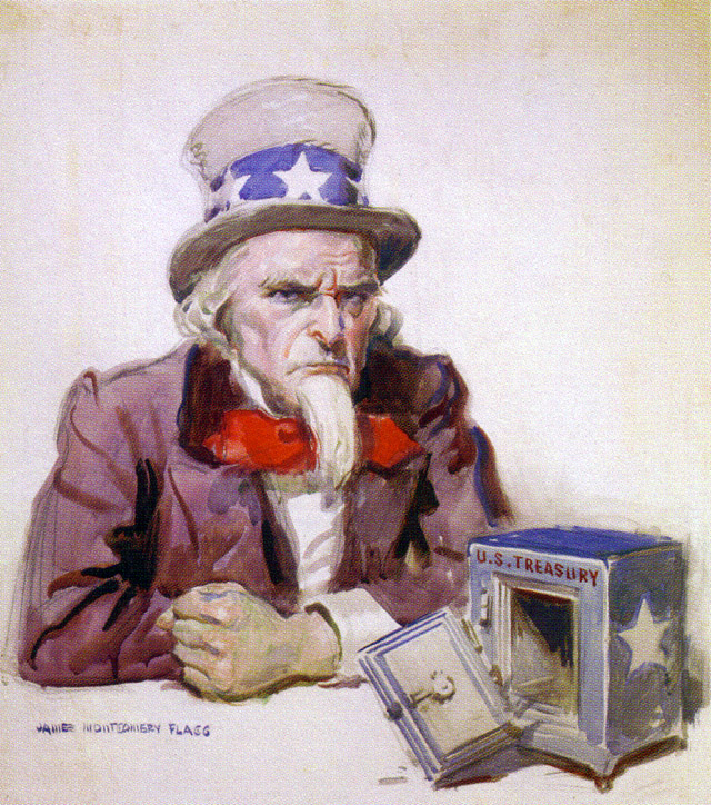 Uncle Sam with empty treasury. Reference to economic situation at end of World War I.